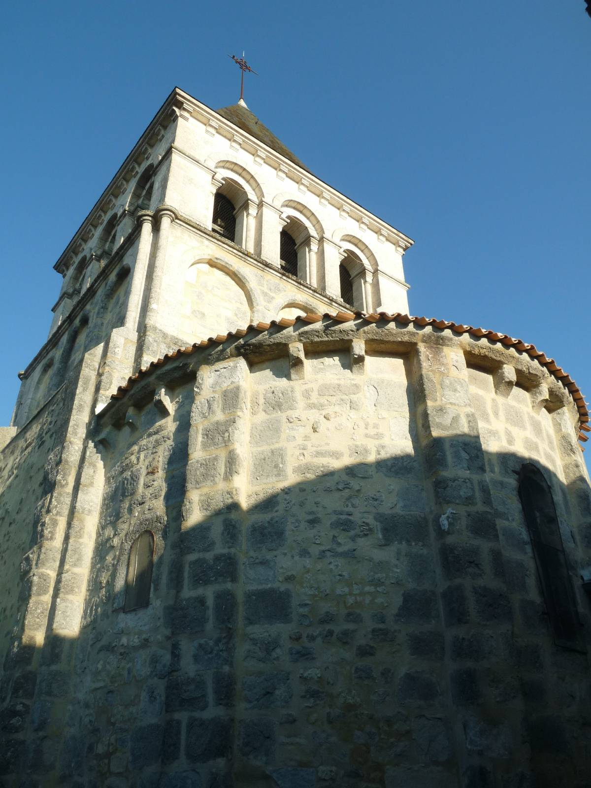 church of Saint-Eutrope, Charente, SW France